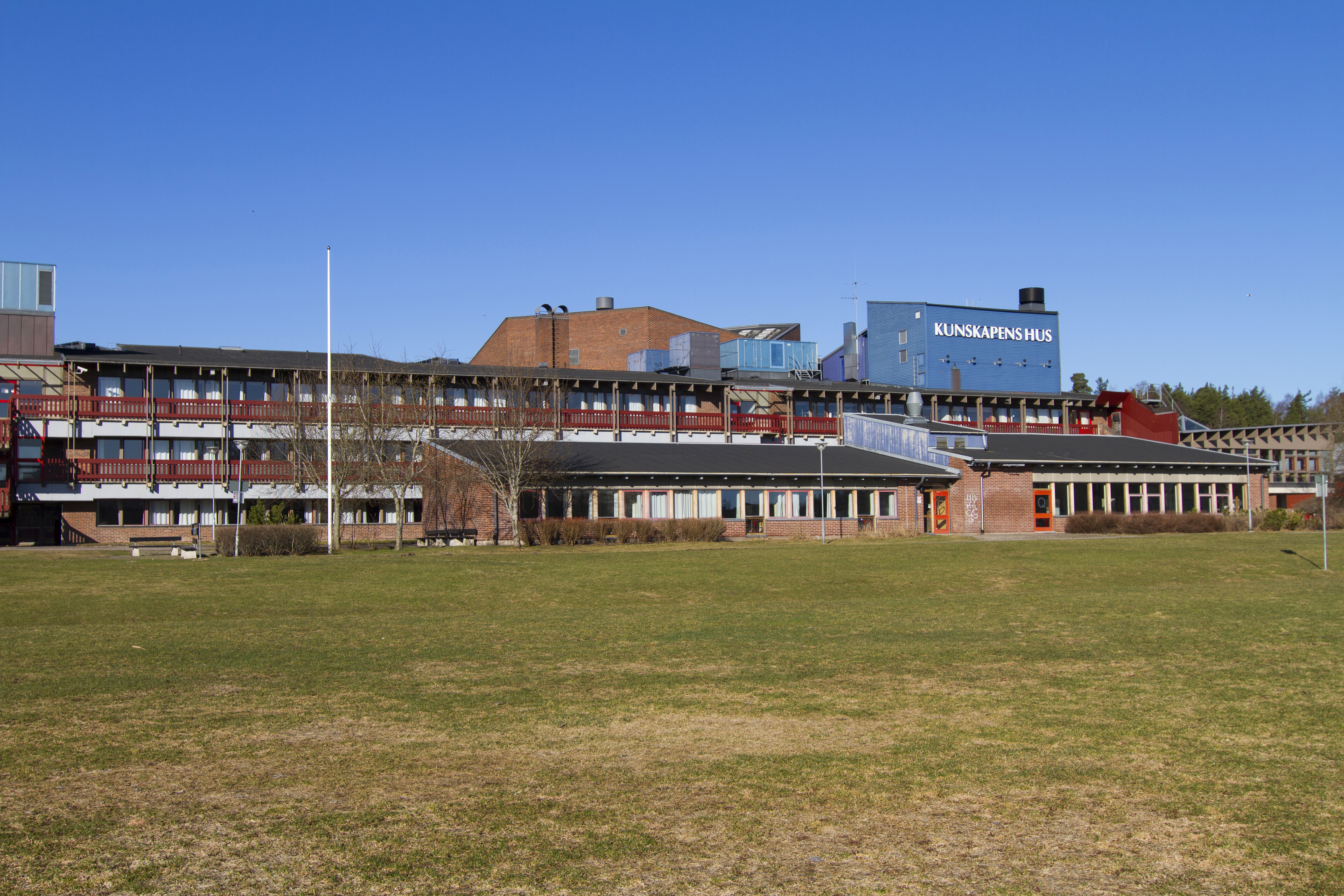 Arlanda gymnasiet, an upper secondary school in Marsta, Sweden. Picture is taken by myself.